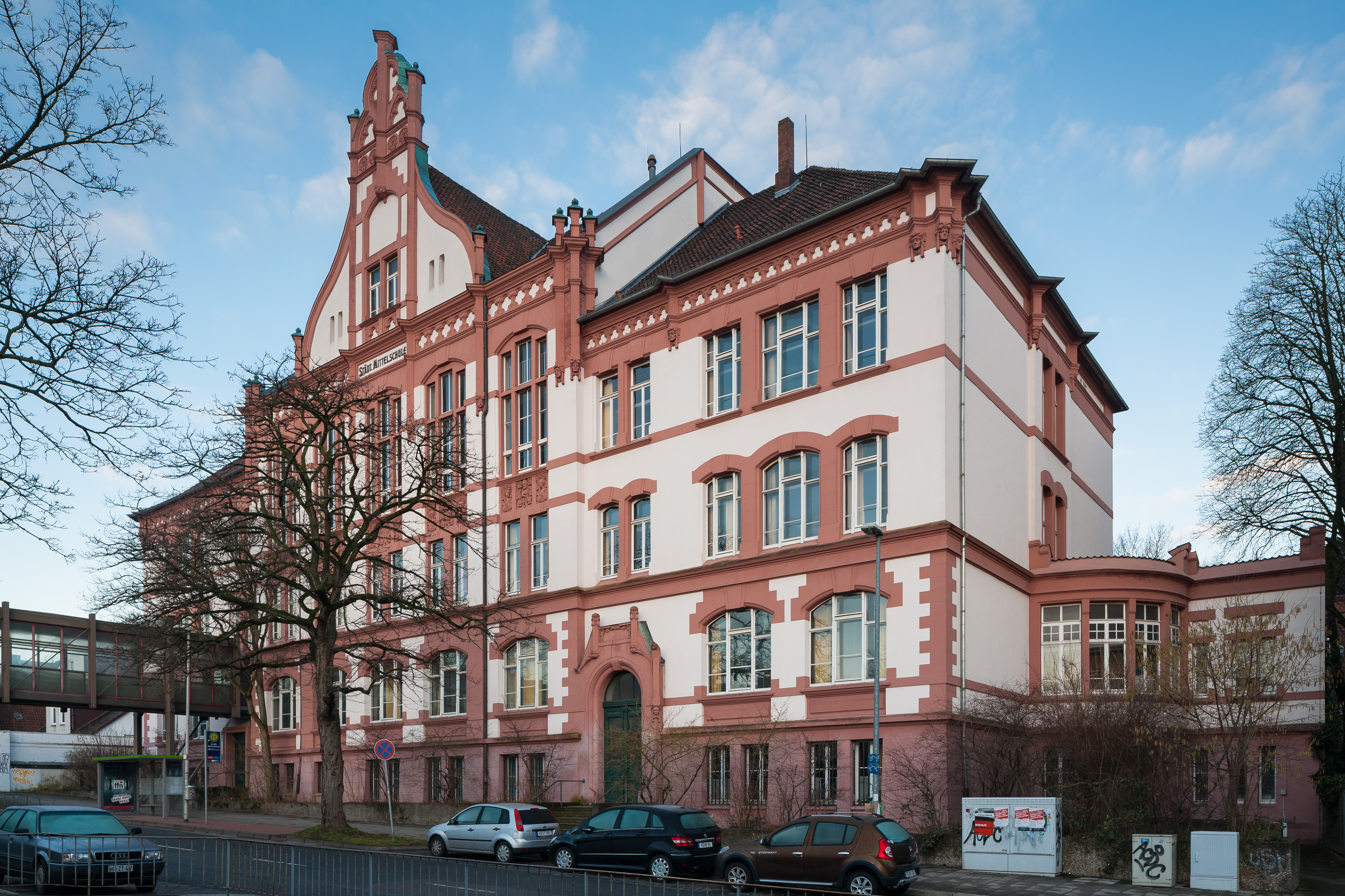 Former municipal intermediate school located at Am Lindener Berge street in Linden-Mitte district of Hannover, Germany.